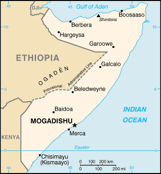 Map of Somalia, showing the capital Mogadishu. Credits Adopted from the CIA map [1] by adding the boundary of the self-proclaimed but internationally unrecognized Somaliland. Taken from Wiki En (uploaded by User:Ahoerstemeier)